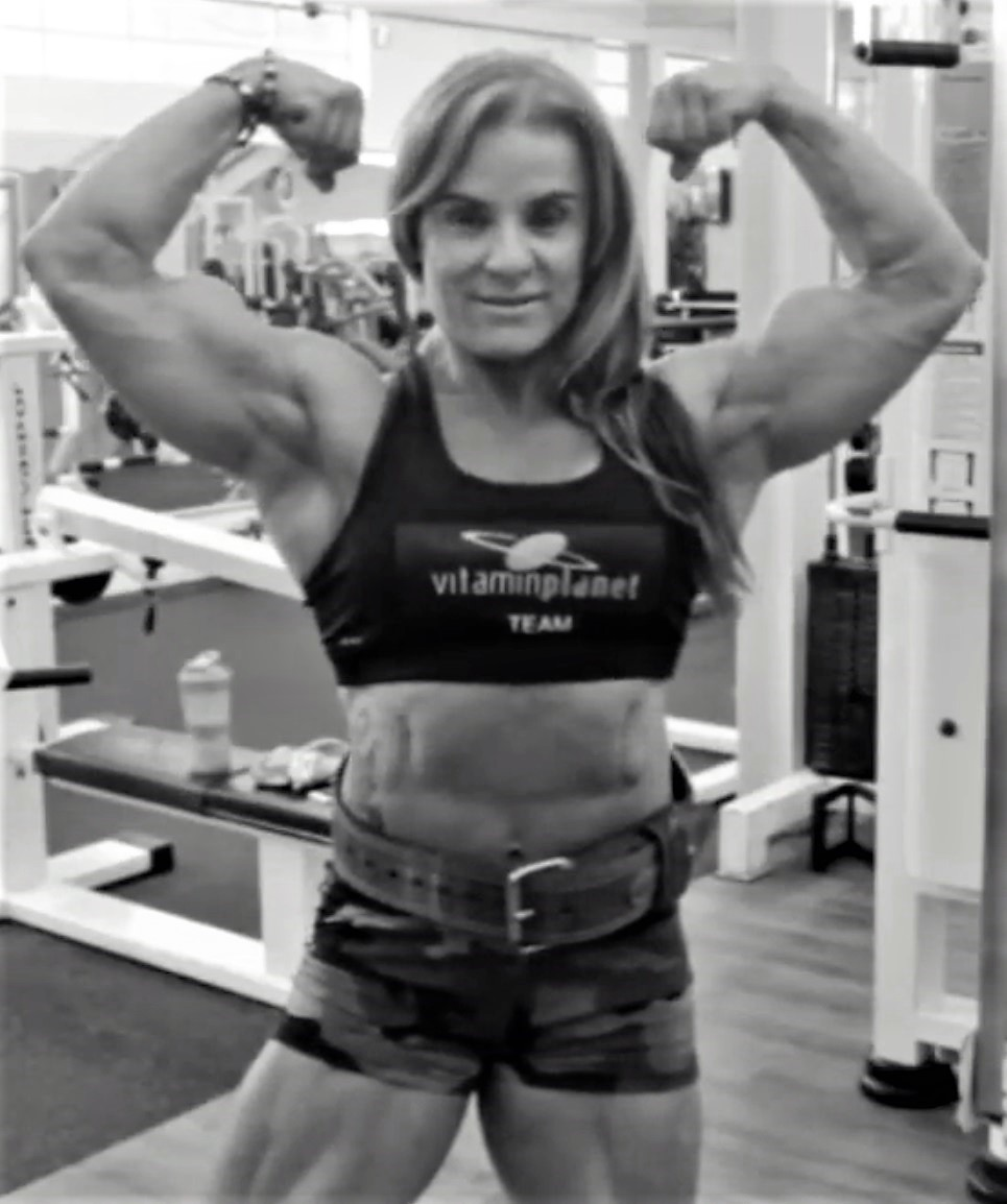 Angela Debatin IFBB Pro Full video to rent online, easy and safe to rent in Woman Bodybuilder qualified 3 times for Ms Olympia Angela Debatin presents in this documentary of female bodybuilding her complete workout, opens her kitchen in Orlando to show how she prepares her meals that took her to the stages of Olympia. Part of this film was recorded in Brazil with the right to Brazilian feijoada and another part in the United States where he trains with his Coach. Directed: Robson Clério Produced